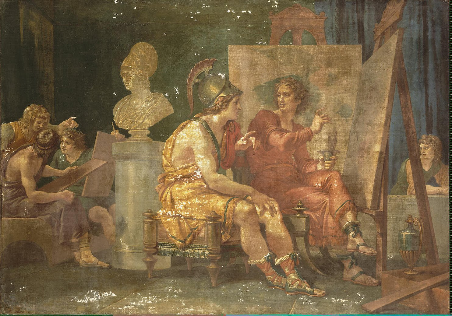 Alexander the Great in the Workshop of Apelles by Cades, Giuseppe. Hermitage, Department of Western European Fine Arts. Tempera with wax on canvas; 80.5x114 cm. Alexander the Great in the Workshop of Apelles